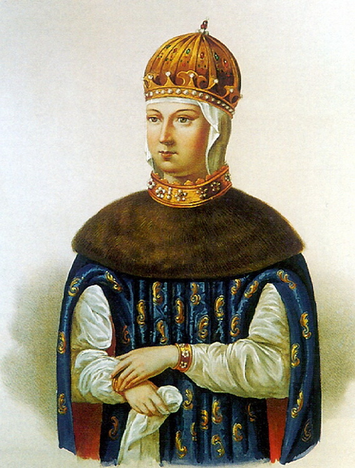 Maria Ilyinichna Miloslavskaya